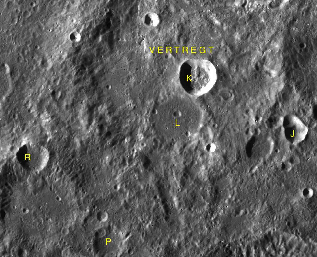 Parts of the charts LAC-103, LAC-104 used for the presentation